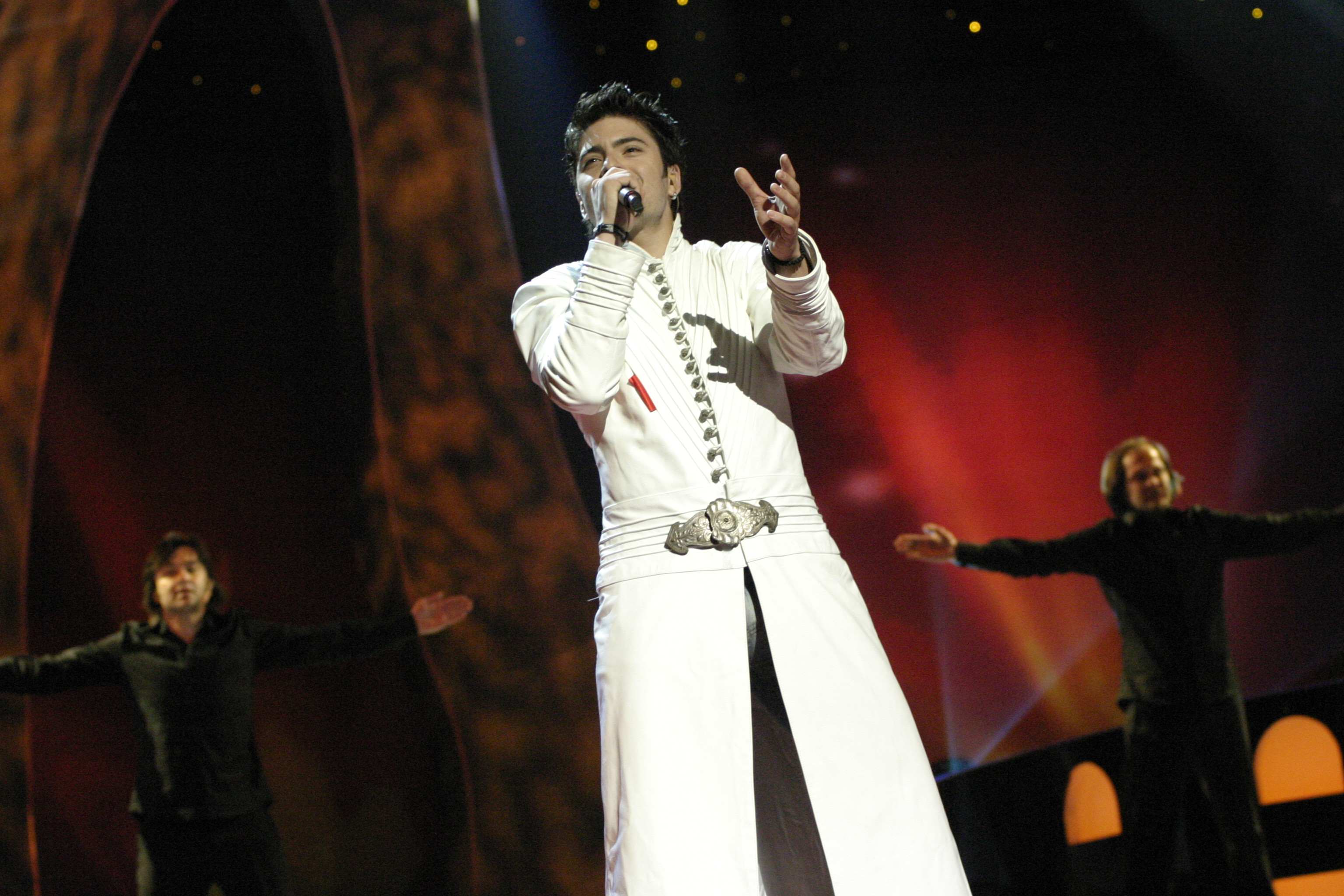 Macedonian contestant during genral rehearsal in Istanbul